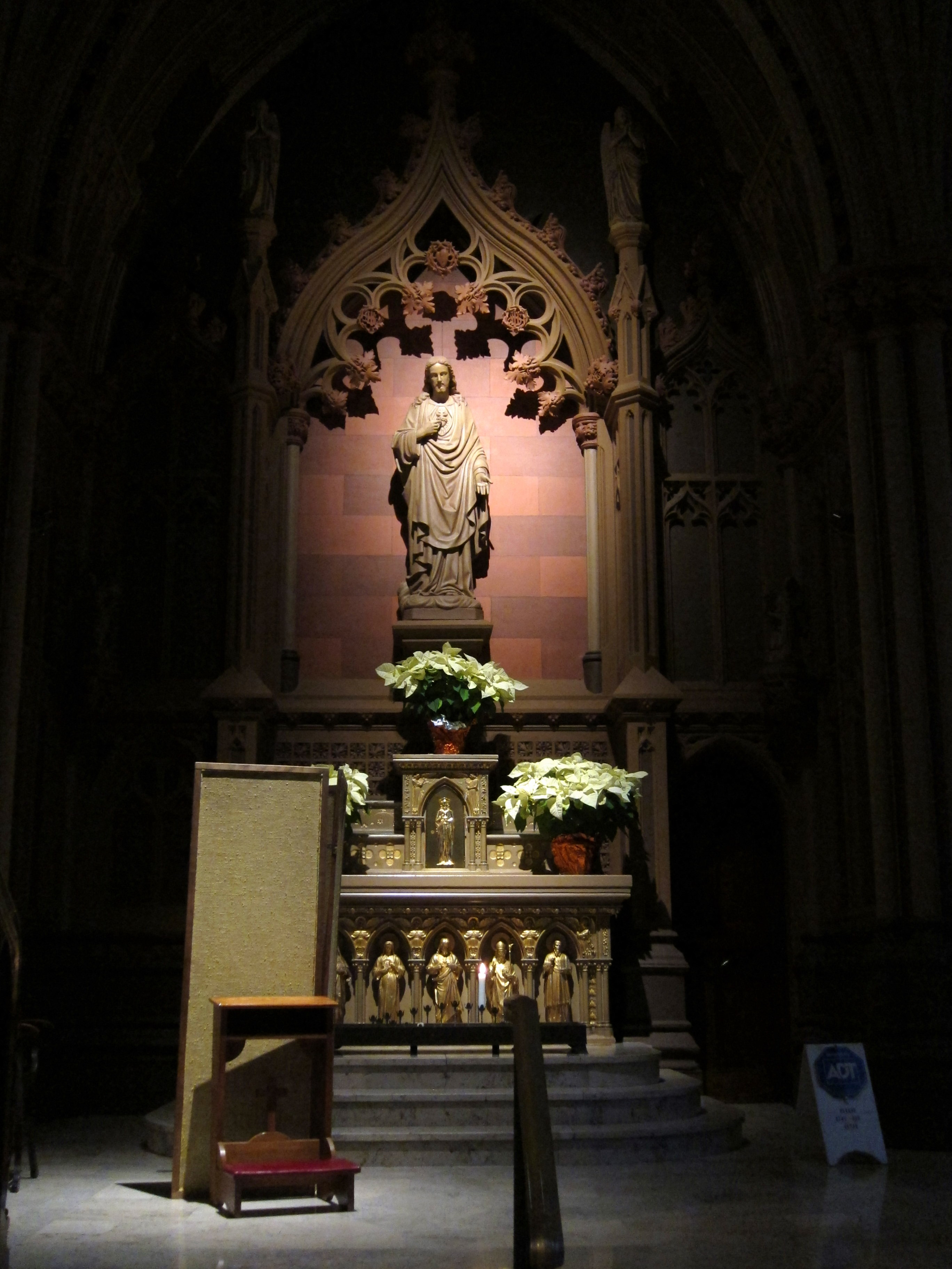 Cathedral of the Immaculate Conception (Albany, New York) - interior, Sacred Heart statue, tabernacle, & temporary confessional